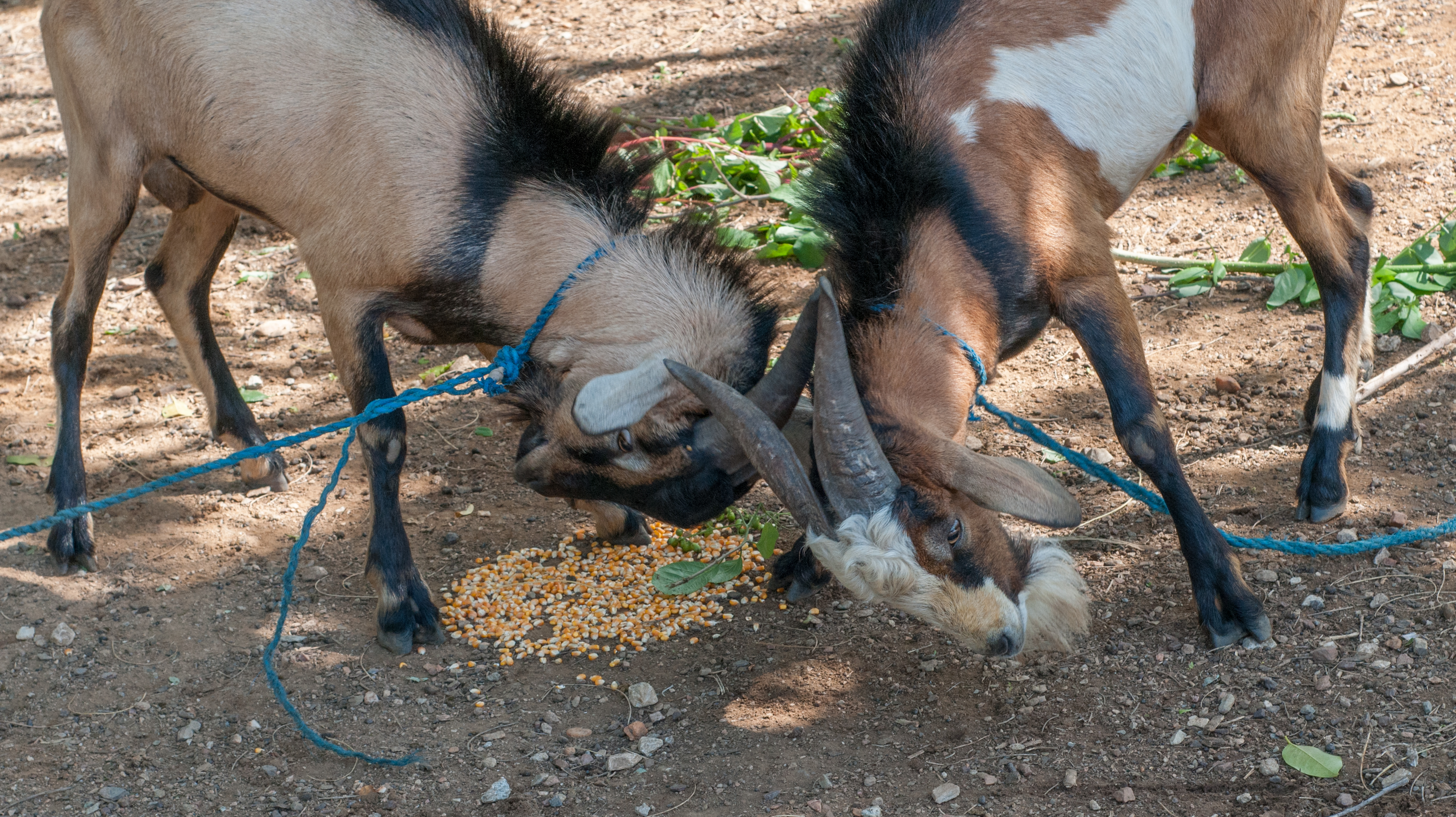 Goats fighting over food